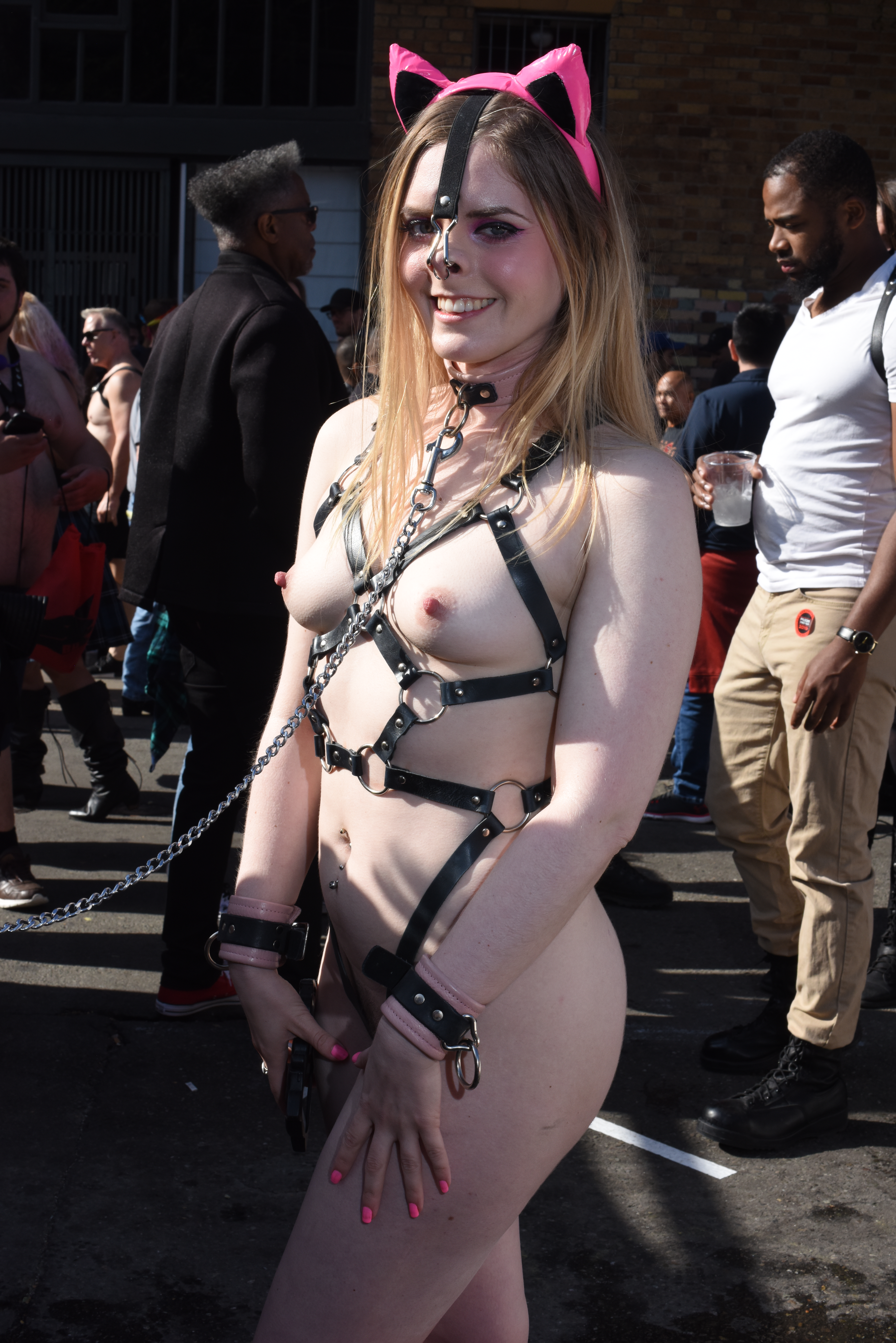 Dresden strikes a sensual pose at Folsom Street Fair as the crowd mills about behind her. YDD_1782